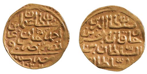 Sultani (3.42g), minted in Egypt 1027 AH / 1618 AD in during the reign of the Ottoman sultan Osman II (1027-1031 AH / 1618-1622 AD)